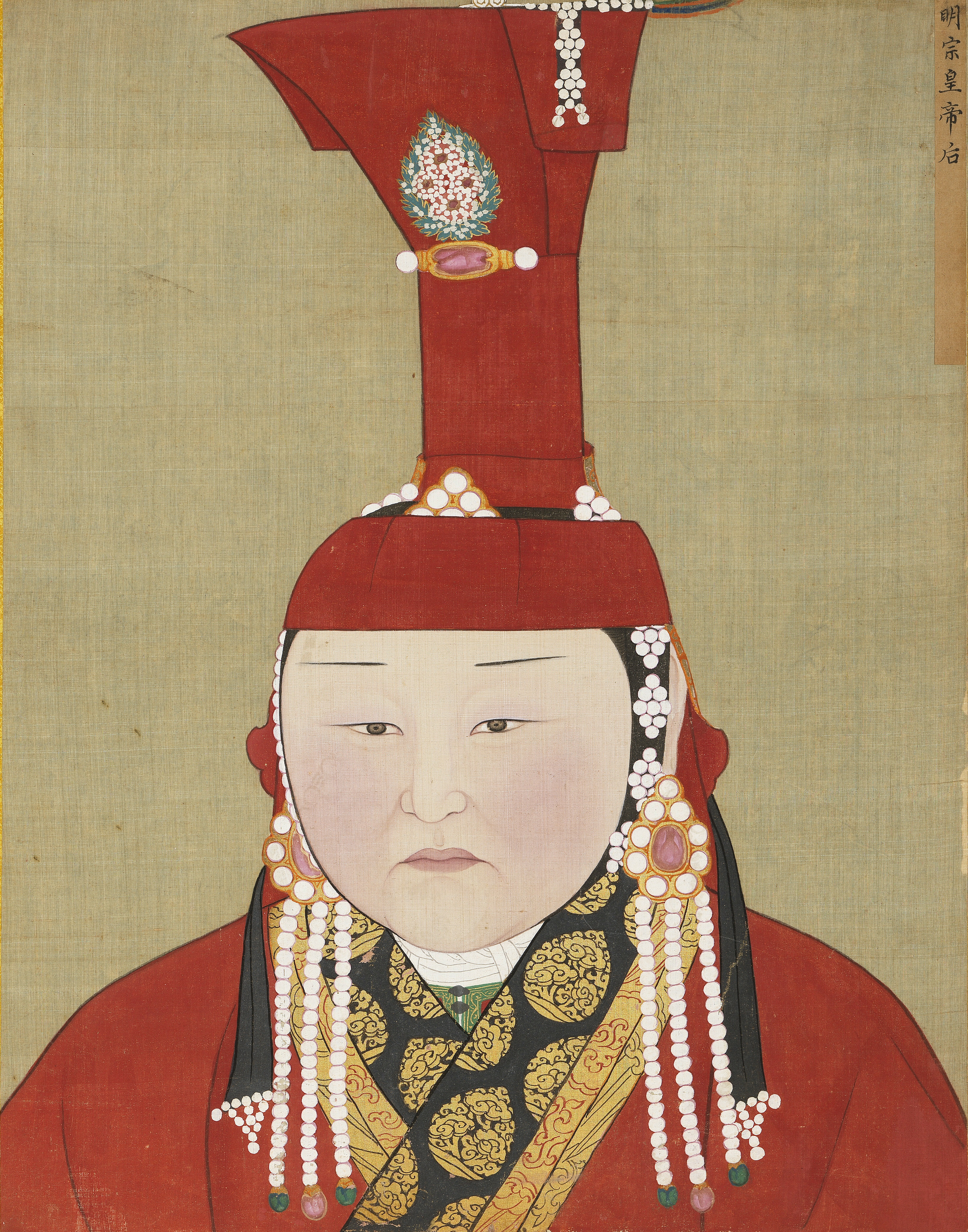 an unnamed wife of Qoshila (a.k.a. Mingzong). Paint and ink on silk. Portrait cropped out of a page from an album depicting several consorts of Yuan emperors (Yuandai dihou banshenxiang), now located in the National Palace Museum in Taipei (inv. nr. zhonghua 000325). Original size is 48 cm wide and 61.5 cm high. For the full page, see Image:YuanEmpressAlbumWivesOfIrinchinbalAndQoshila.jpg. Note: Some rows or columns of pixels near the margins of the pic may have been manipulated by me (Yaan) for optics. For an unaltered (except cropping) version, see the image at Image:YuanEmpressAlbumWivesOfIrinchinbalAndQoshila.jpg.